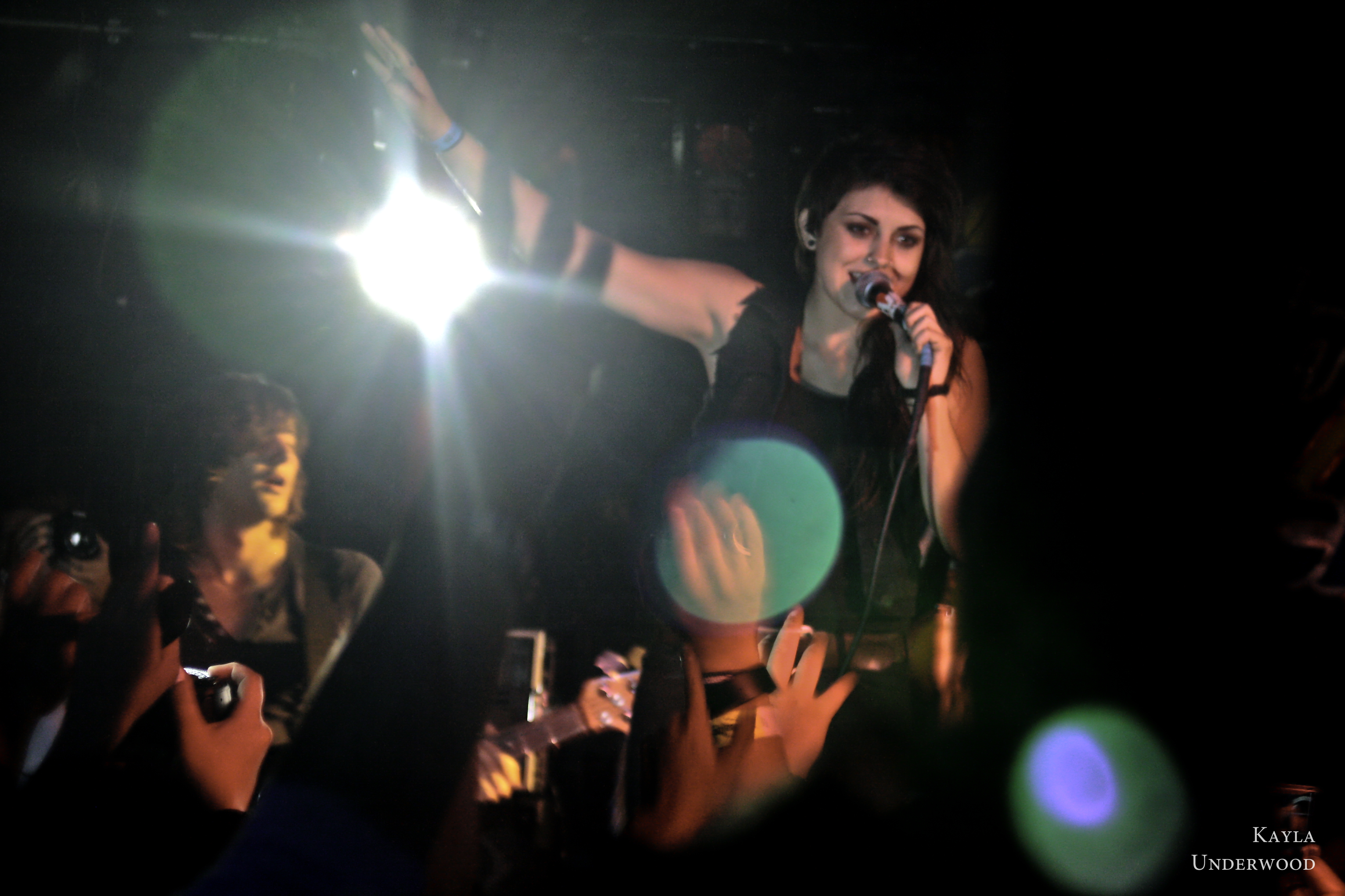 VersaEmerge perfoming in the Vultures Unite Tour 10/29/10